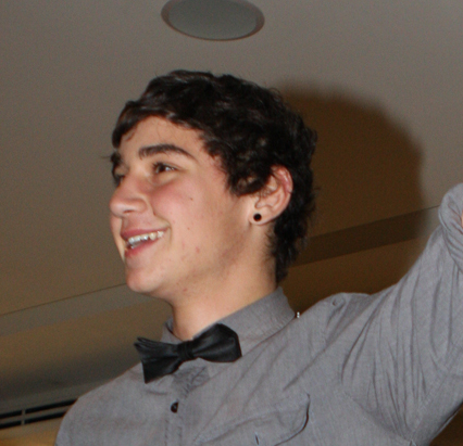 Janoskians appearance at Liverpool, Westfield